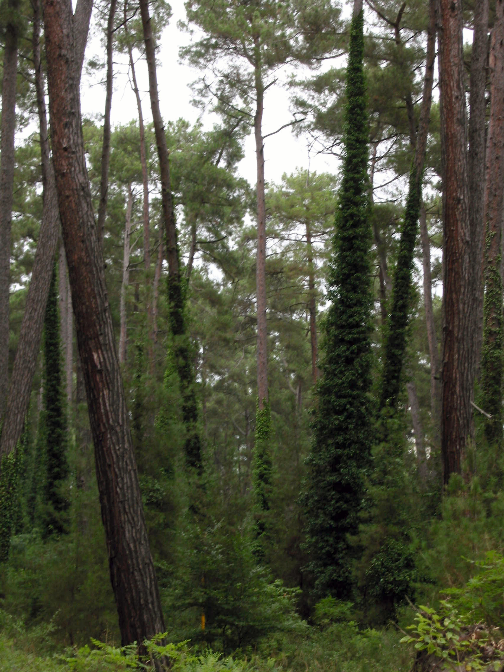 Relict pine (Pinus brutia var. pityusa) grove at Pitsunda, Abkhazia